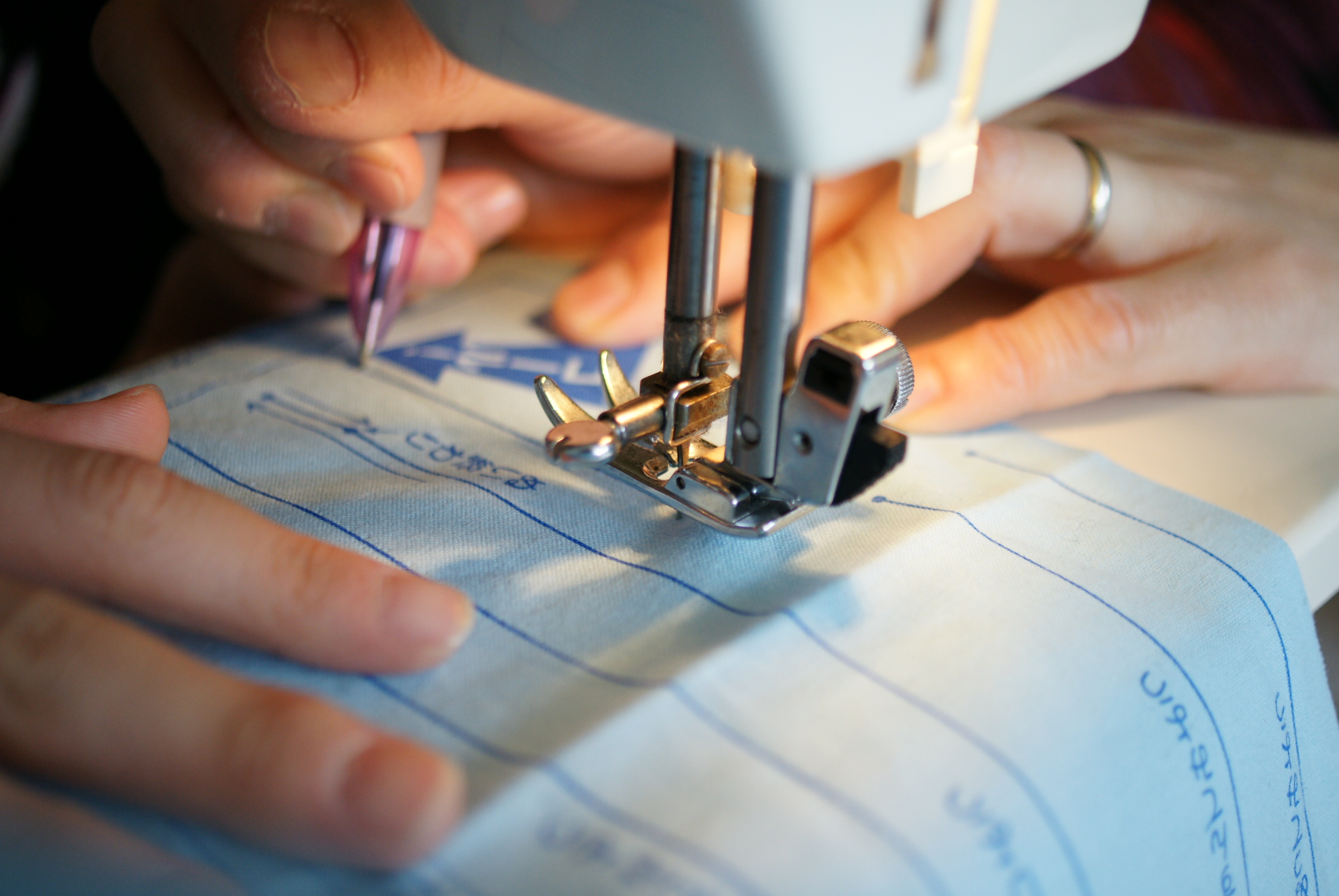 A sewing lesson in Japan. A girl is guided by her parent.